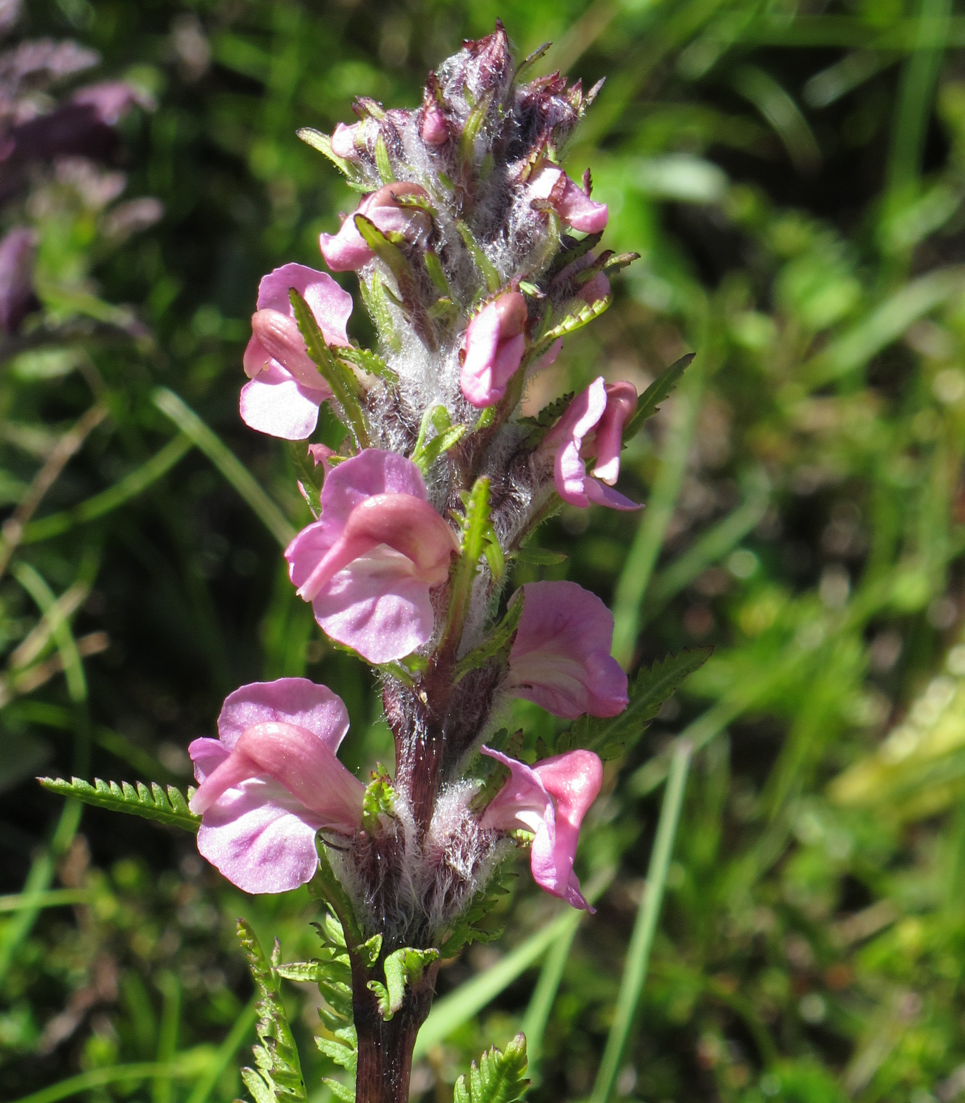 Pedicularis rostratospicata subsp. helvetica on the way from Muottas Muragl to Munt da la Bês-cha, Switzerland